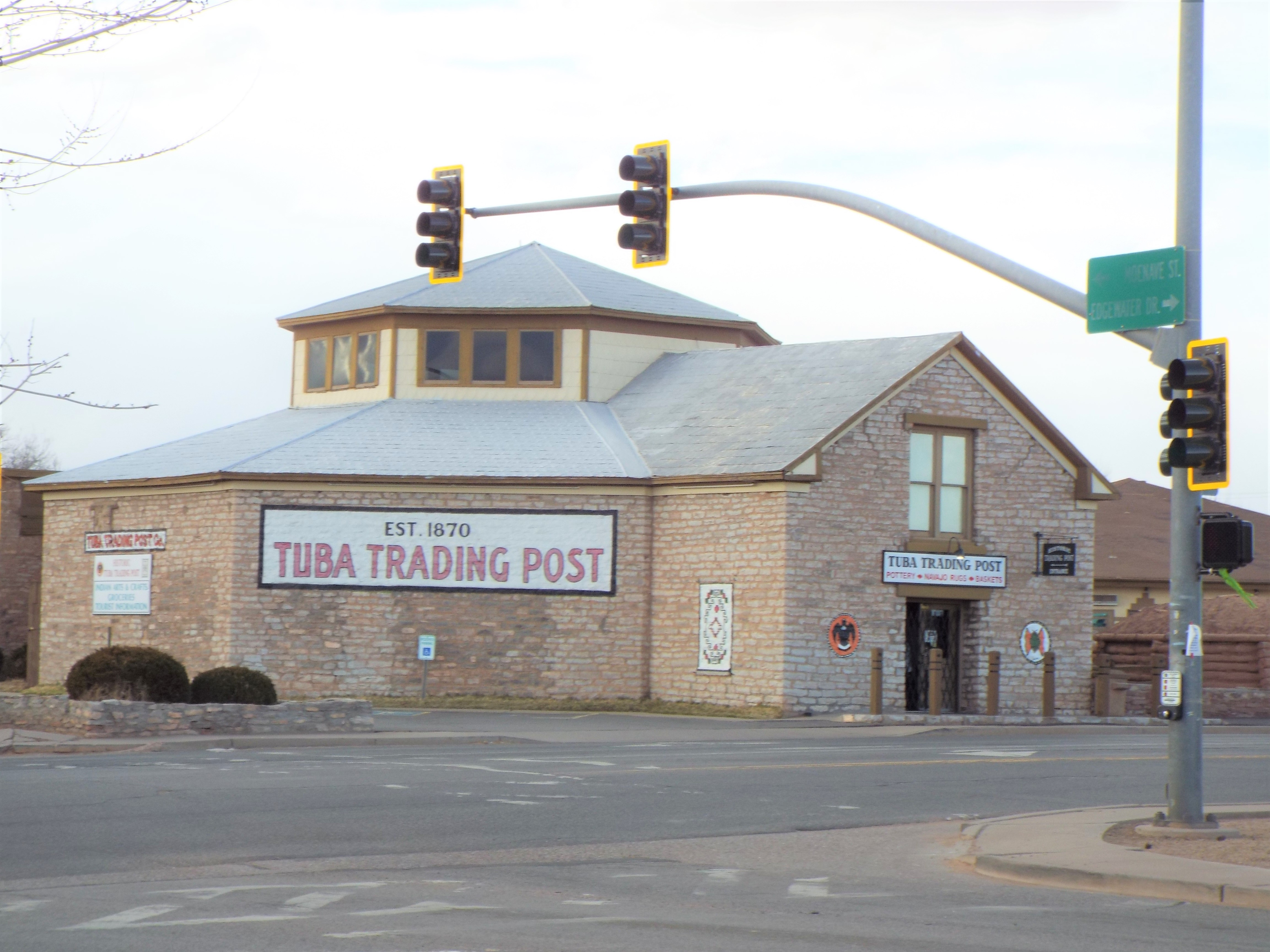 Tuba Trading Post on 10 Main Street in Tuba City, Arizona. Built in 1891 and renovated in 1905. Listed in the NRHP in November 29, 1996, ref. num.:#96001362